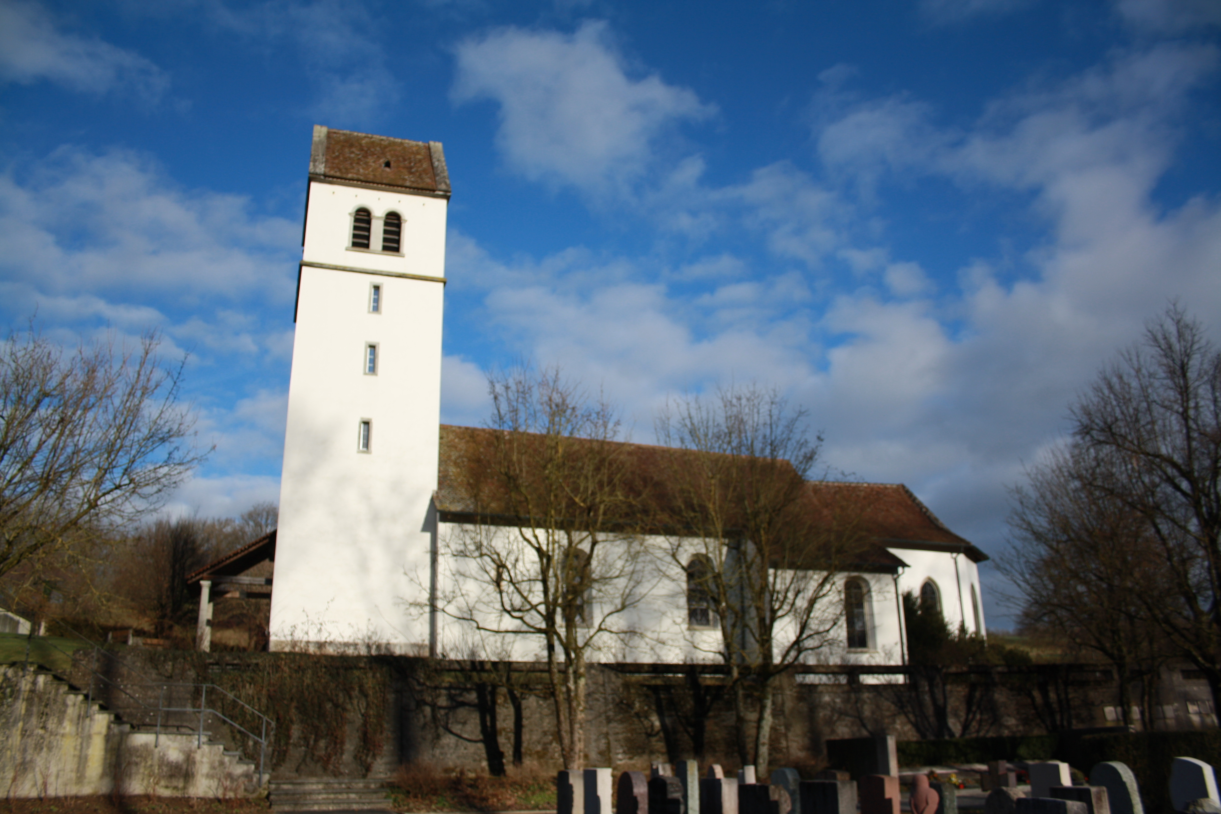 Reformed church of Bözberg, Kirchbözberg, Unterbözberg